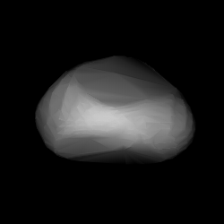 3D convex shape model of 844 Leontina, computed using light curve inversion techniques. J. Hanuš, J. Ďurech, M. Brož, B. D. Warner (June 2011). "A study of asteroid pole-latitude distribution based on an extended set of shape models derived by the lightcurve inversion method". Astronomy and Astrophysics 530: A134. ISSN 0004-6361. arXiv